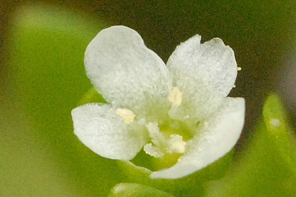 Montia fontana from Commanster, Belgian High Ardennes .